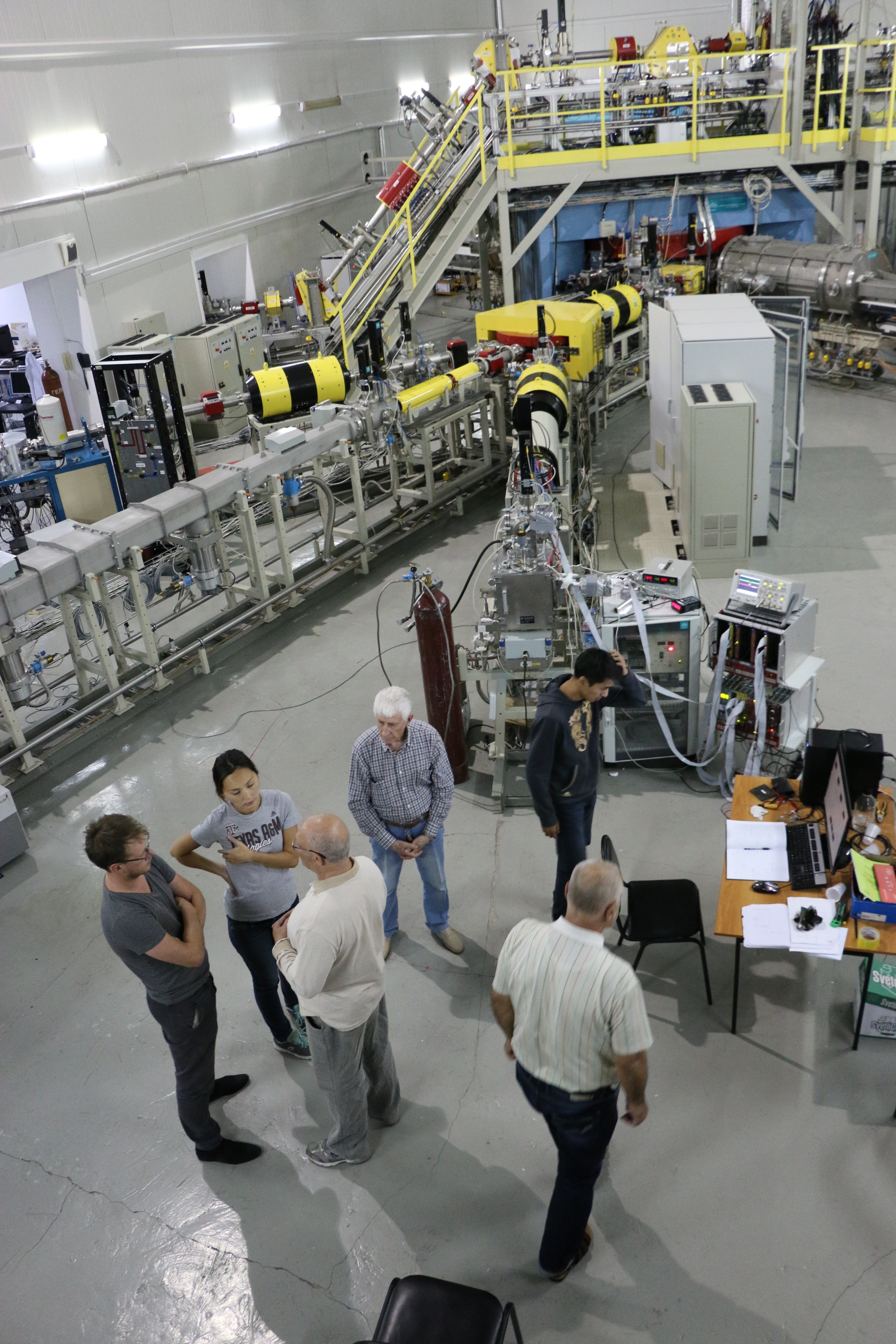 Group of Kazakhstan physicists in collaboration with Uzbek researchers working at the ion accelerator DC-60